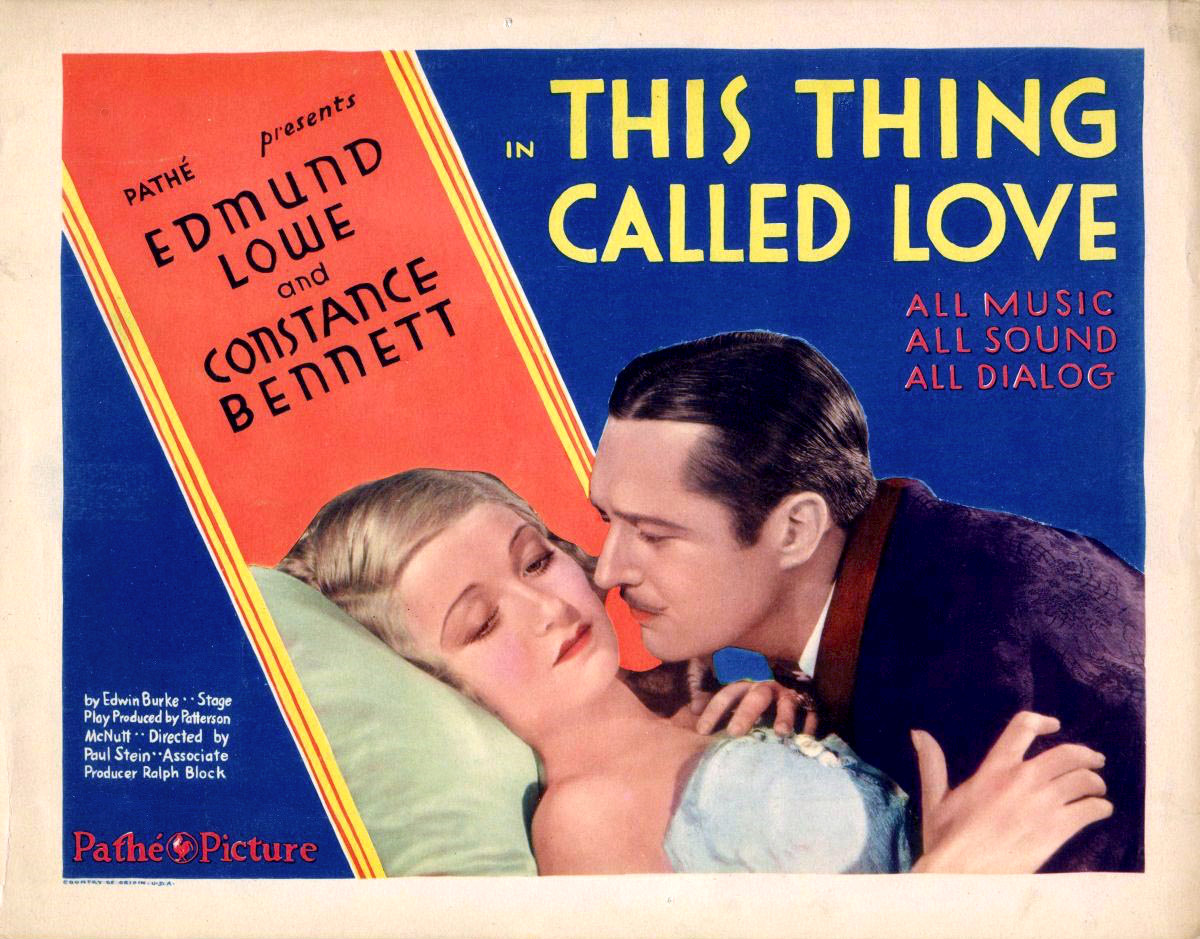 Lobby card from the 1929 film This Thing Called Love with Constance Bennett and Edmund Lowe.